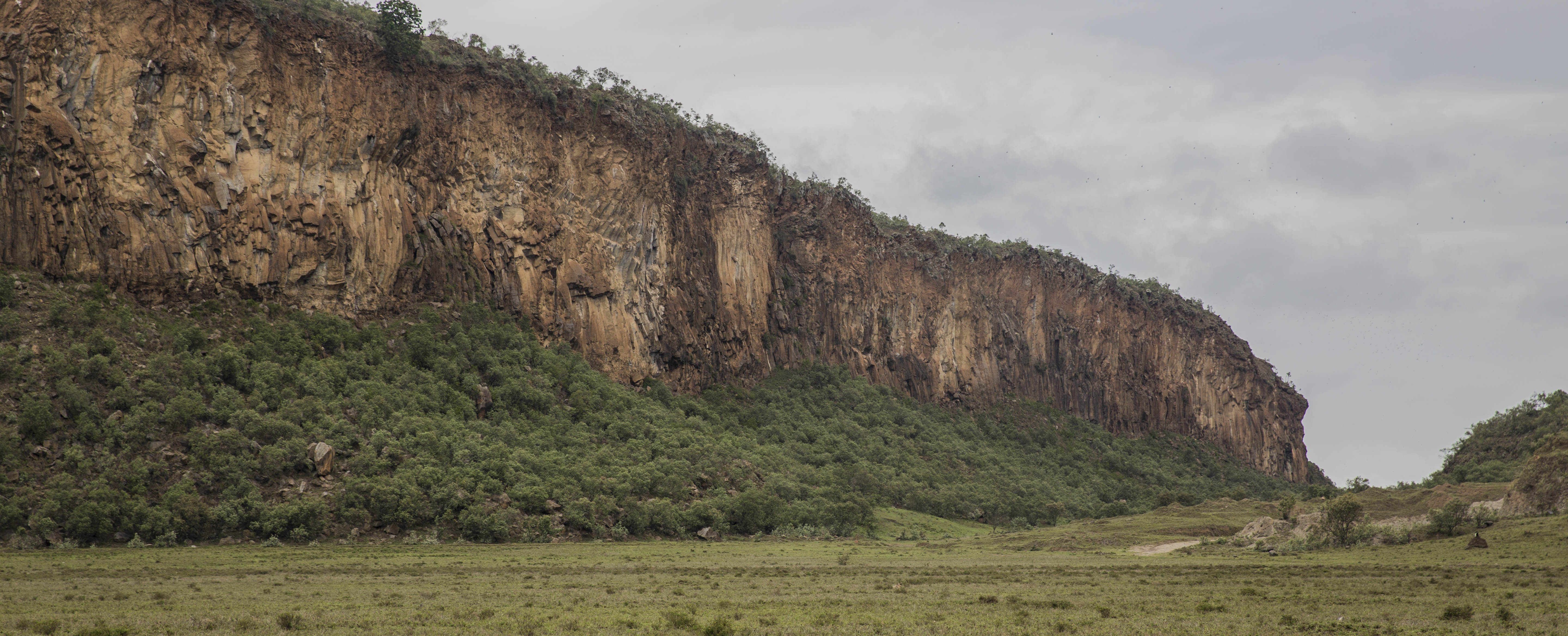 Do you remember the Lion King? Hell's Gate National Park, Naivasha, Kenya. The main setting of the 1994 film, The Lion King is heavily modelled after the park, where several lead crew members of the film went to the park to study and gain an appreciation of the environment for the film. (Wikipedia)